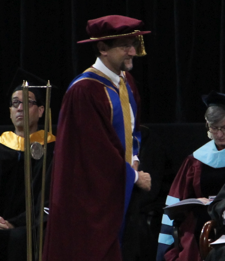 Physicist Paul Goldbart in December 2016